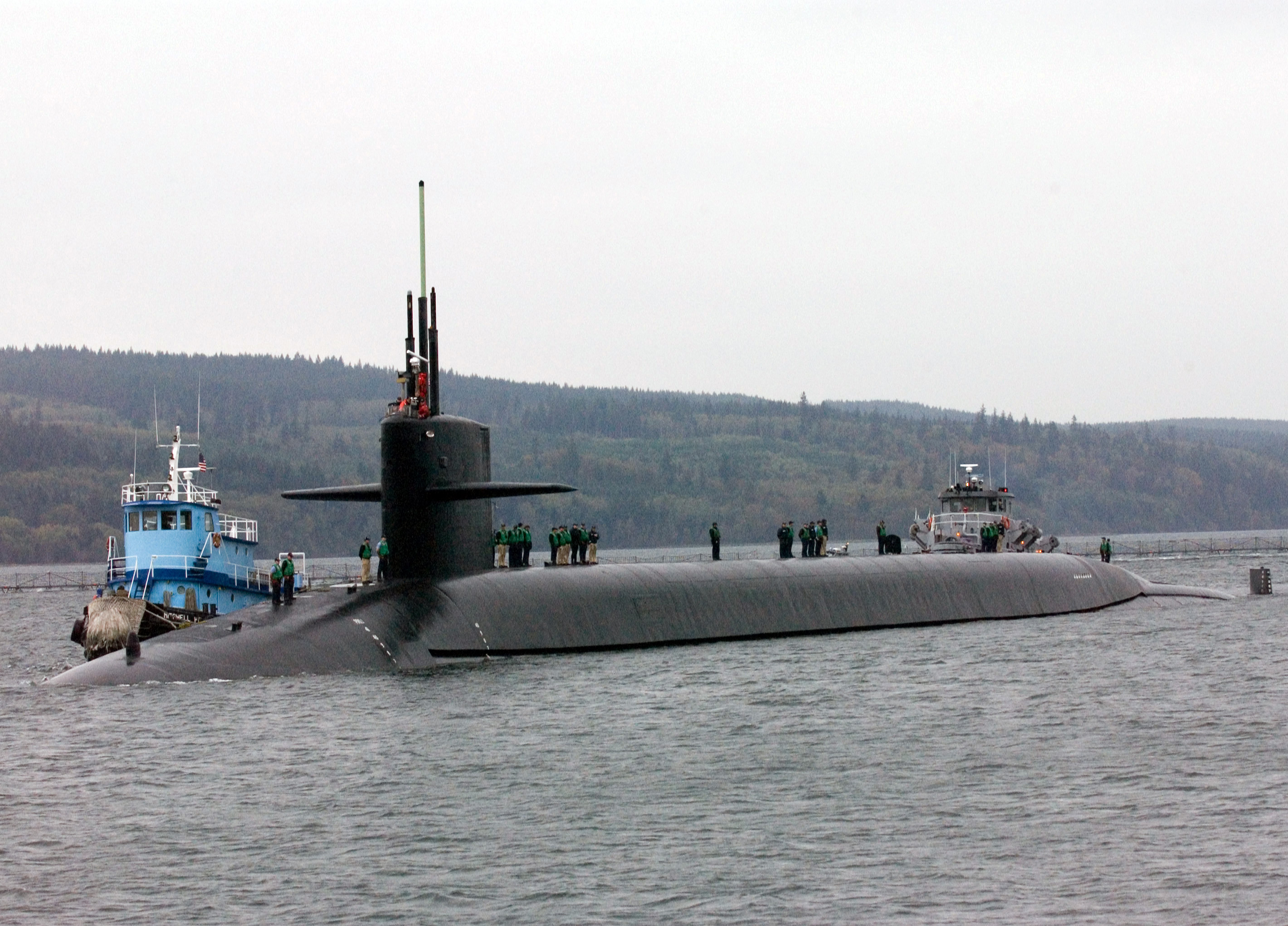 USS Louisiana (SSBN 743) arrives for the first time at their new homeport at Naval Base Kitsap, Silverdale, Washington, October 12, 2005. Louisiana was formerly homeported at Kings Bay, Georgia.